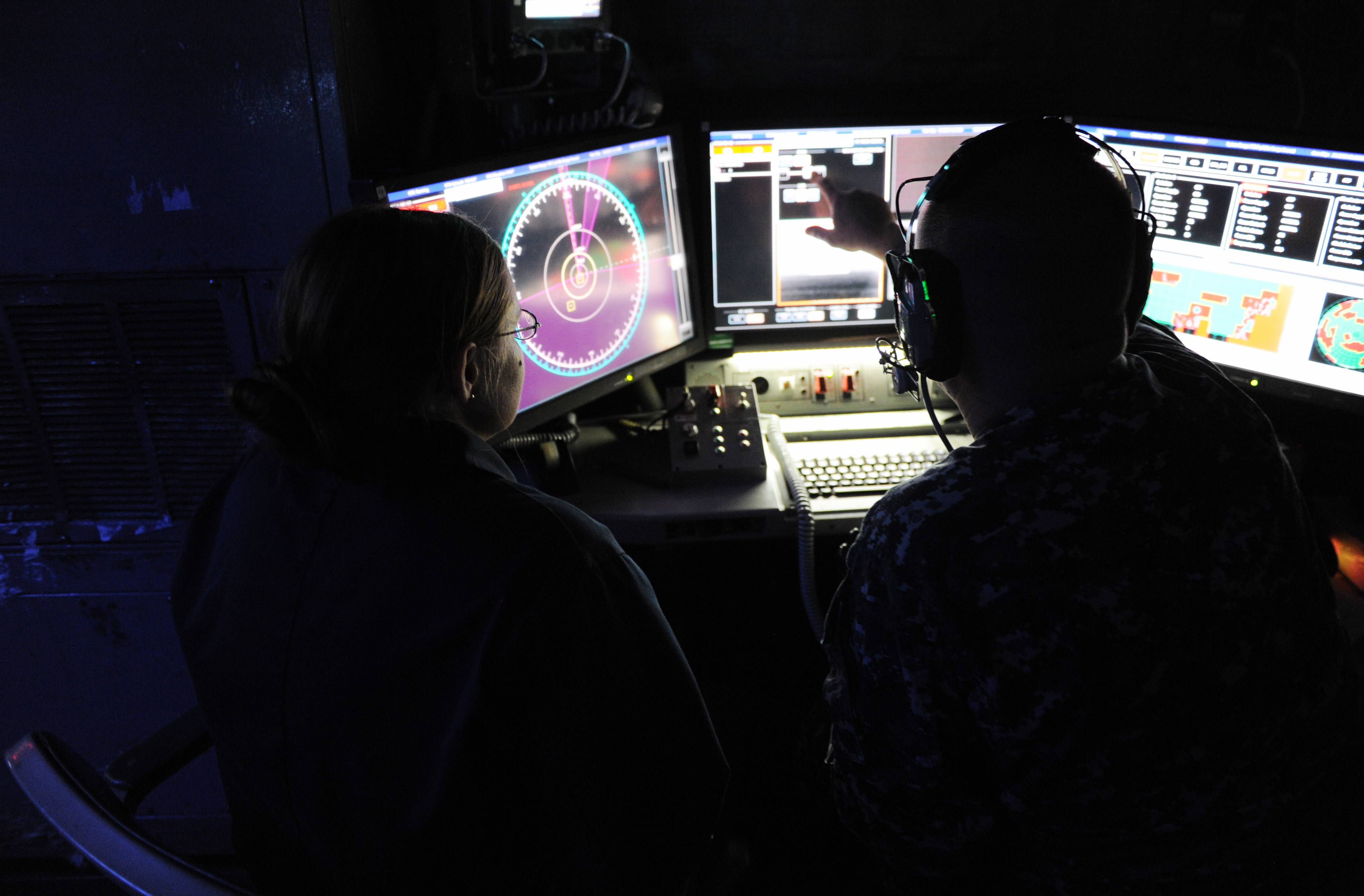 The U.S. Navy Chief Fire Controlman Brett Richmond and Lt. j.g. Katie Woodard operate the Office of Naval Research (ONR)-sponsored Laser Weapon System (LaWS) installed aboard the Afloat Forward Staging Base (Interim) USS Ponce (AFSB(I)-15) during an operational demonstration in the Arabian Gulf. Directed energy weapons shall counter asymmetric threats, including unmanned and light aircraft and small attack boats.